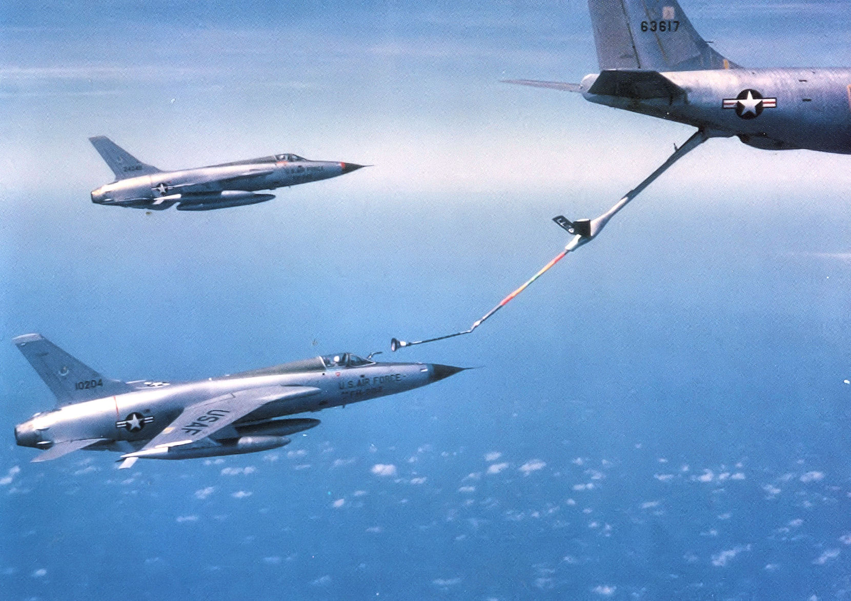 18th Tactical Fighter Wing F-105s deploying to Korat RTAFB, Thailand 1965 Republic F-105D-25-RE Thunderchief 61-0204 identifiable, was retired to MASDC as FK0009 Oct 7, 1976.